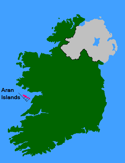 Location map of the Aran Islands, from Aran_Islands.PNG